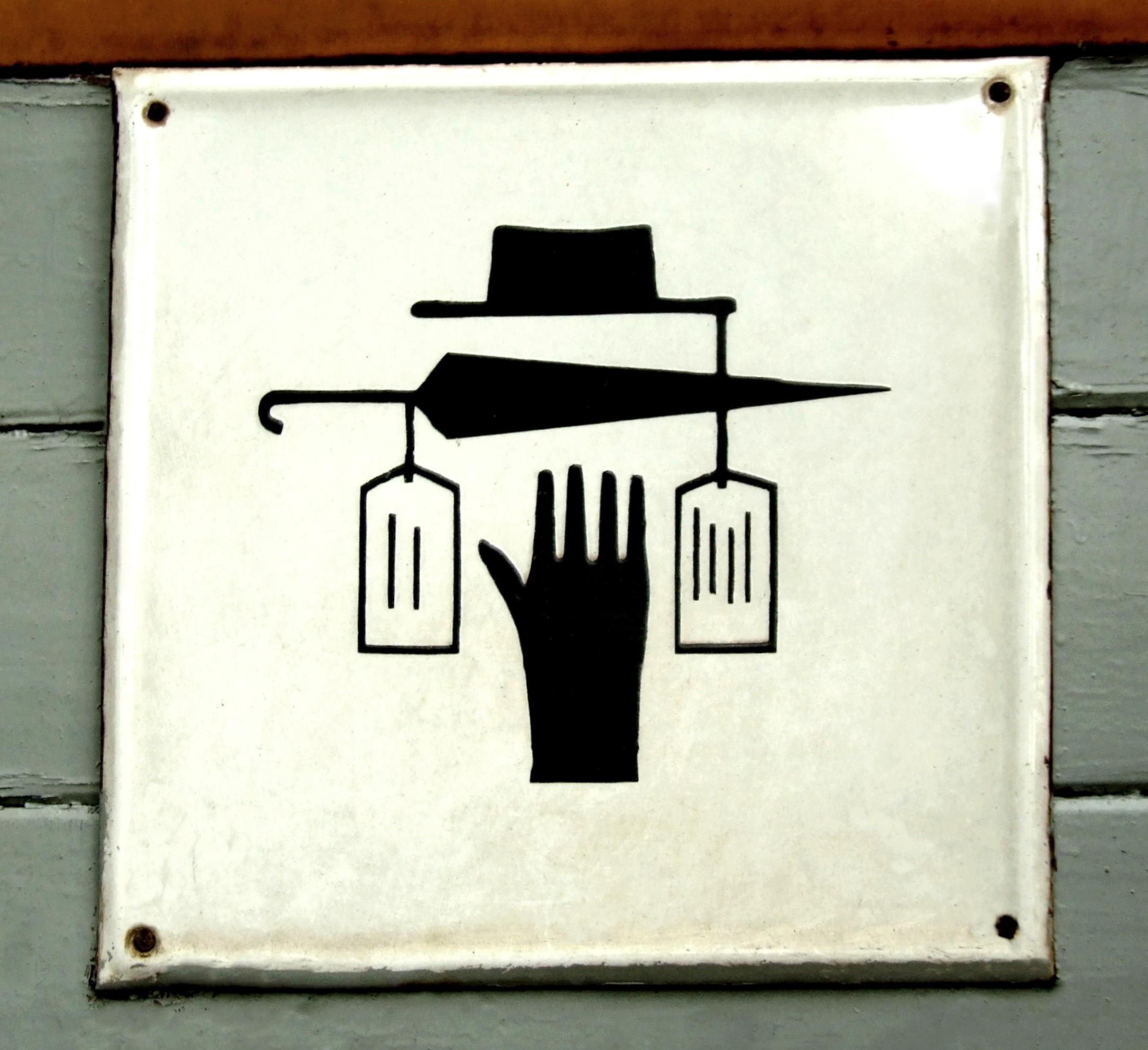 Lost property office symbol at a railway station in Poland Author:Mohylek 13:11, 9 October 2006 (UTC)